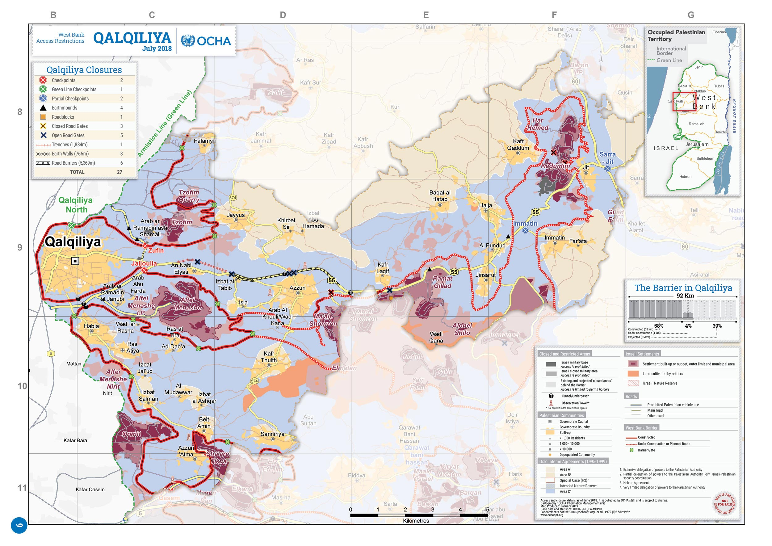 2018 OCHA OpT map